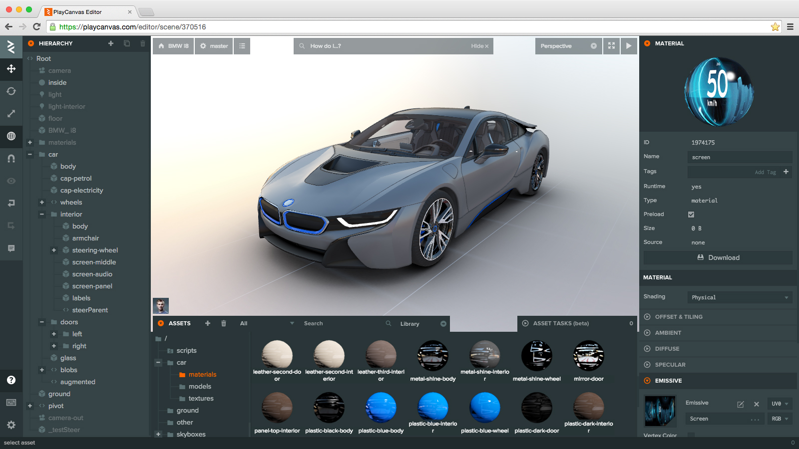 Screenshot of a PlayCanvas Editor with loaded BMW i8 Scene as example.